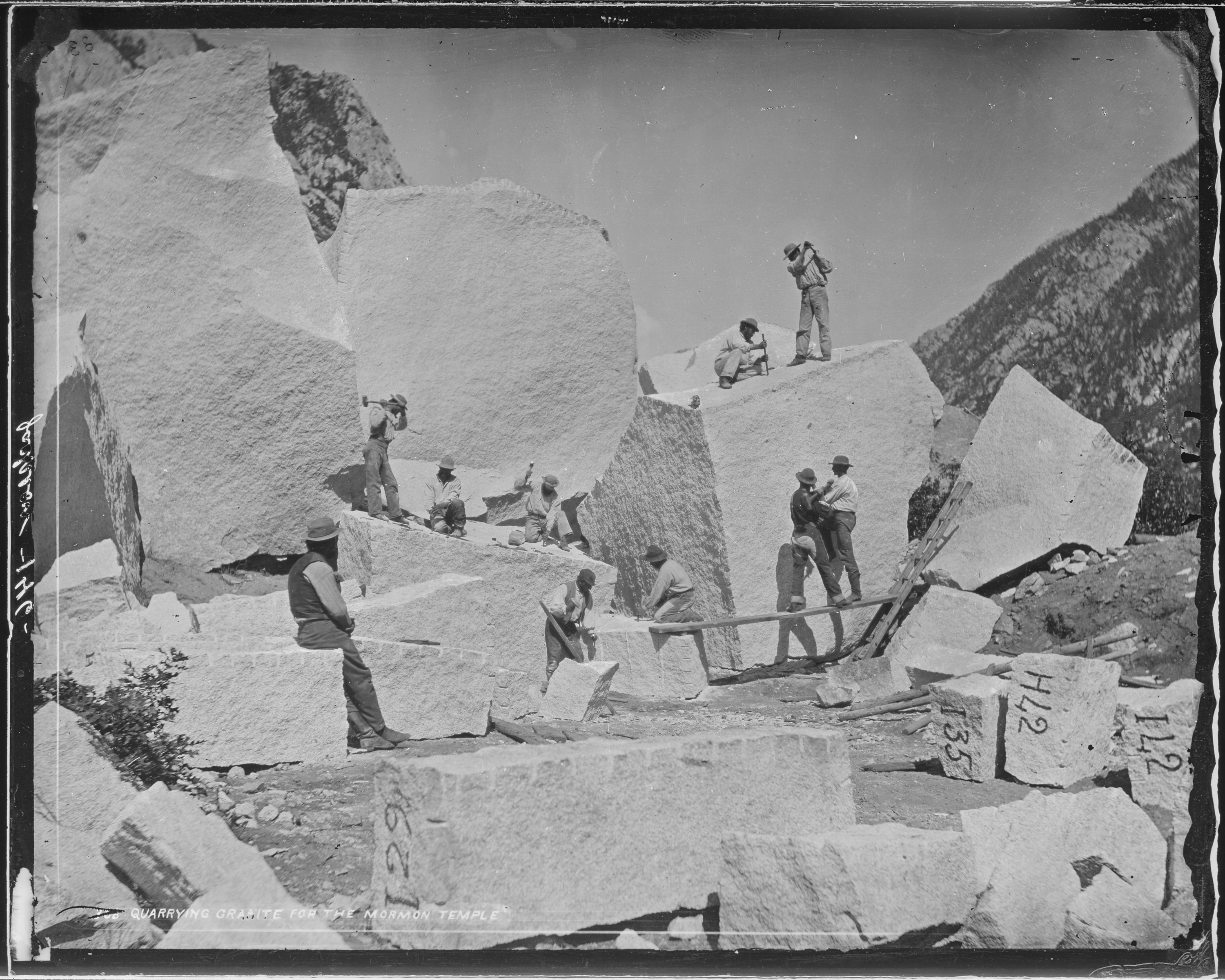 Workmen extracting quartz monzonite from the Little Cottonwood stock (detached masses which have fallen from the walls of Little Cottonwood Canyon, resting at the mouth of the canyon). The quarrying consists of splitting up the stone into blocks that can be transported to the Salt Lake Temple construction site of The Church of Jesus Christ of Latter-day Saints.